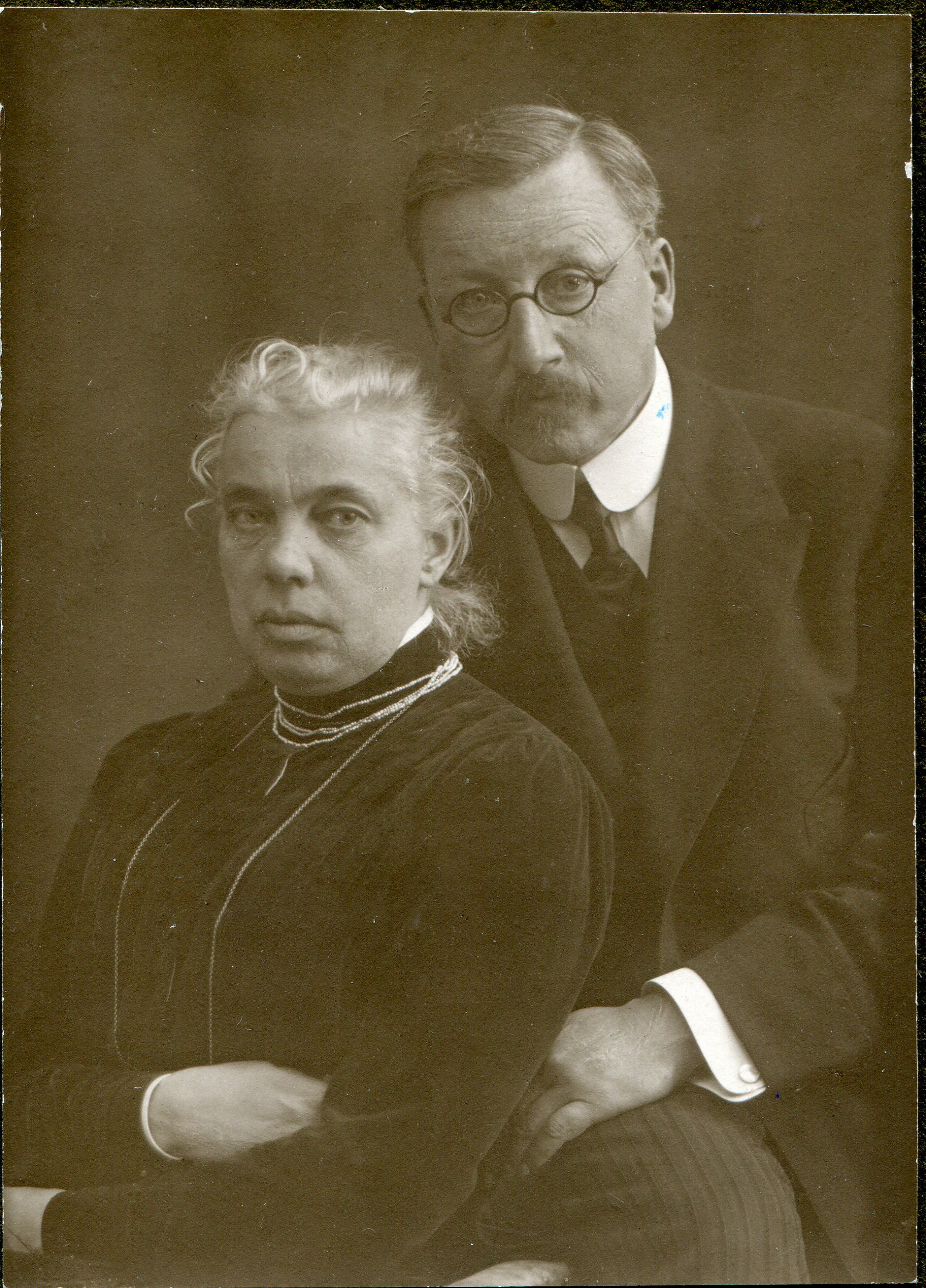 Aleksandr Danilovich and Alexandra Samsonovna Alferovs, teachers of in Moscow Alferov's gymnasium, victims of bolshevik's Red Terror